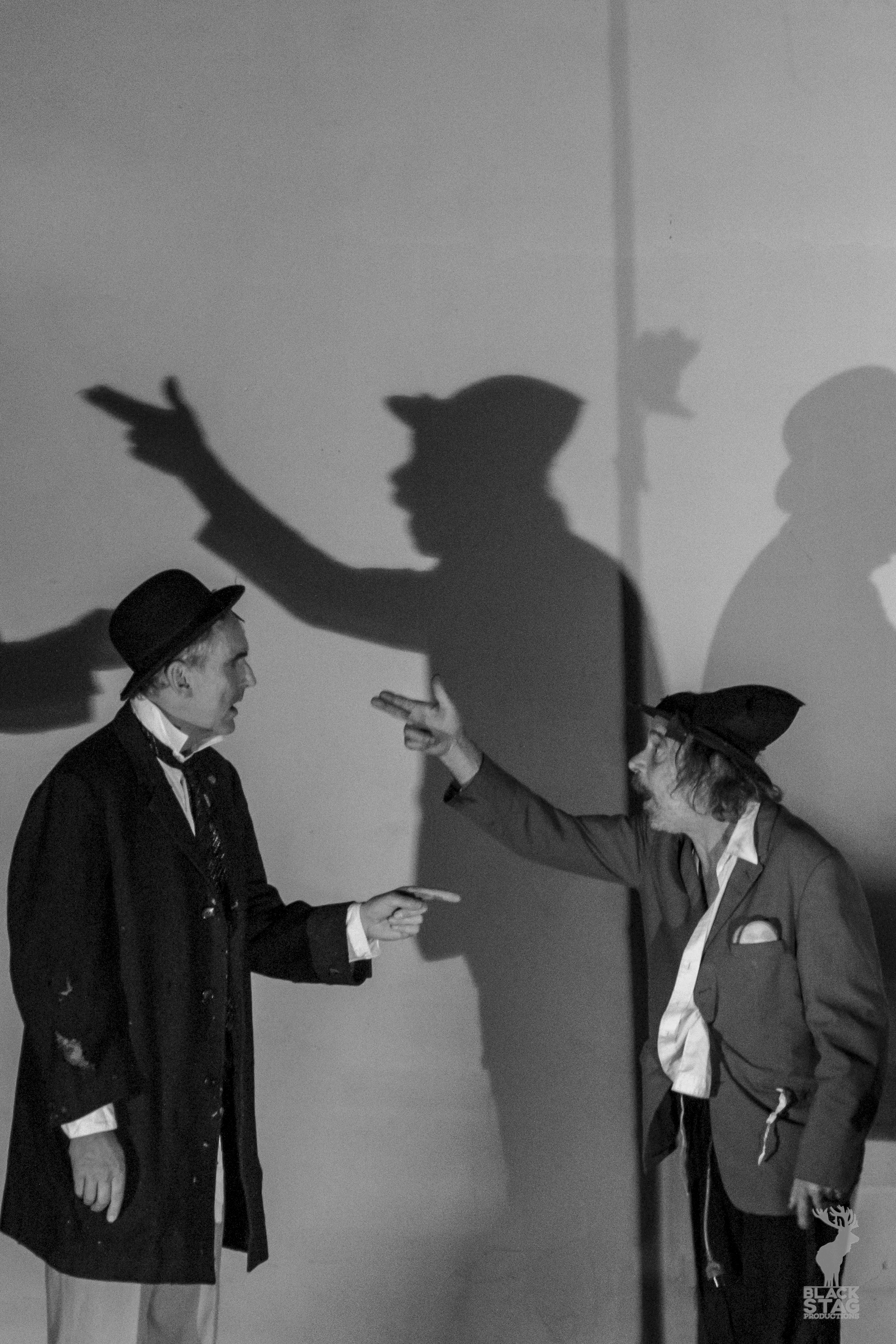 Gordon Wilson (Vladimir) & Karel Cremers (Estragon) in 'Waiting for Godot'